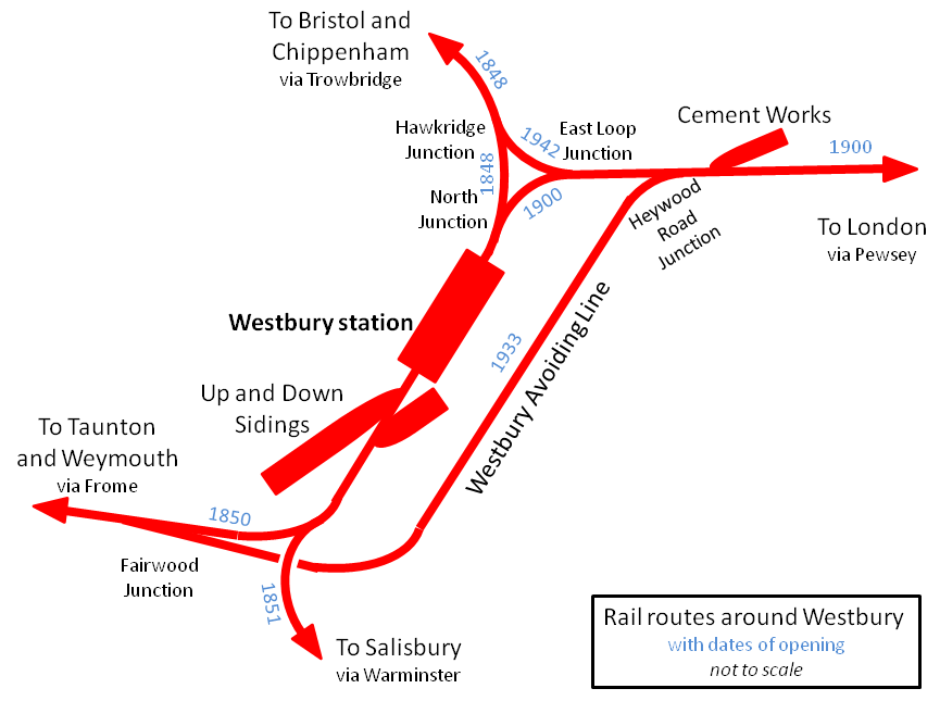 A diagram showing the railway routes around Westbury in Wiltshire, England. Not to scale.